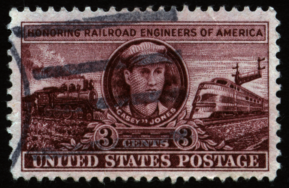 Casey Jones, as depicted on a United States Postal Service 3 cent postage stamp. As this is a U.S. stamp issued before 1978 and was issued without a copyright notice, it is in the public domain.